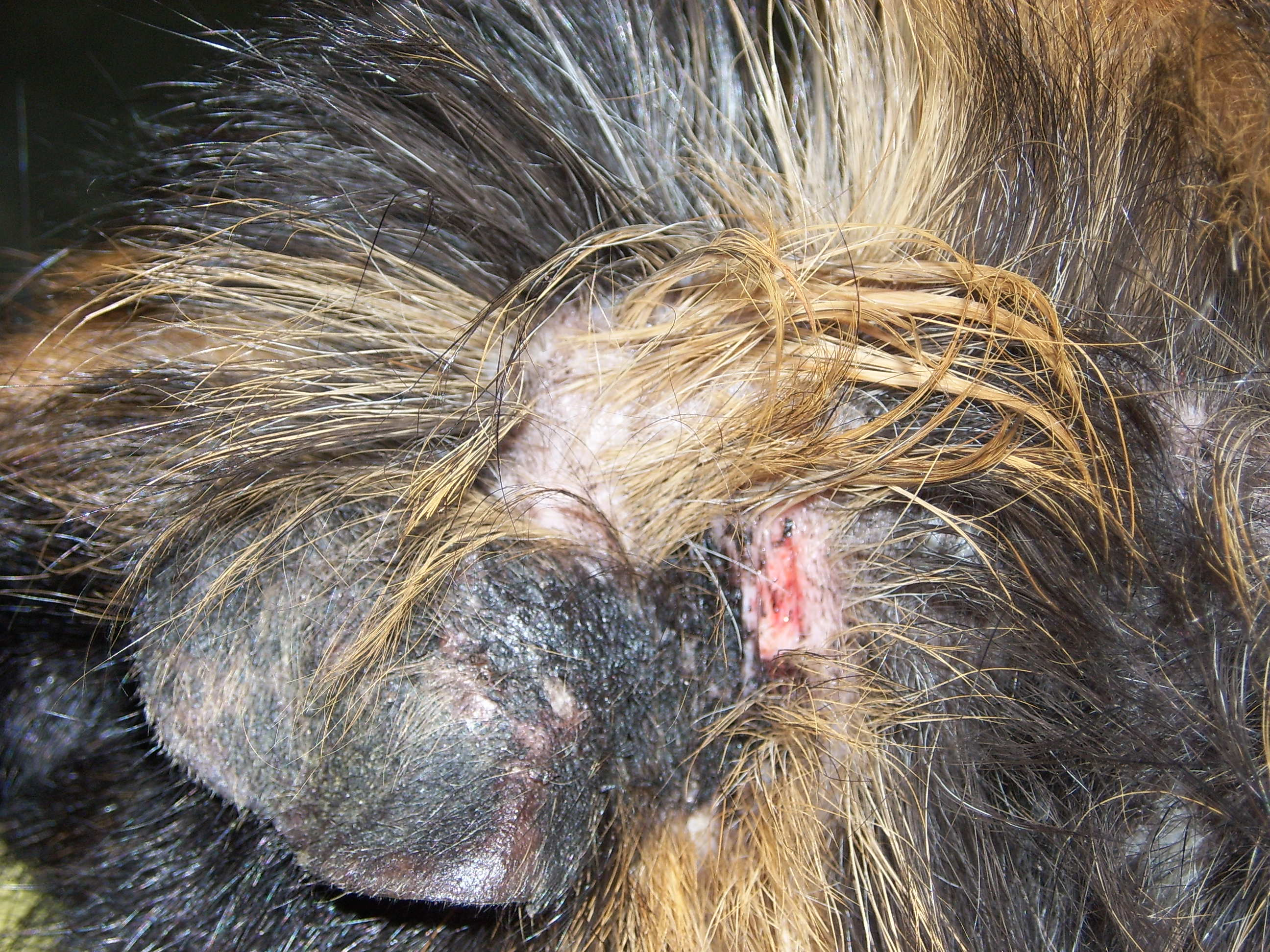 Infection with Chirodiscoides caviae in a guinea pig